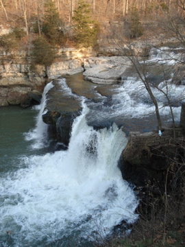 This is a picture of Cataract Falls in Owen County, Indiana. It was taken by Kyle Casebolt on 01/09/07. The view is from the side railing looking down onto the falls. It would be most useful in the article titled Cataract Falls (Indiana).